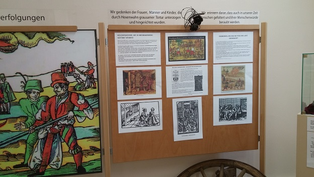 Plaque for the victims of witch hunt in the Marsberg Museum